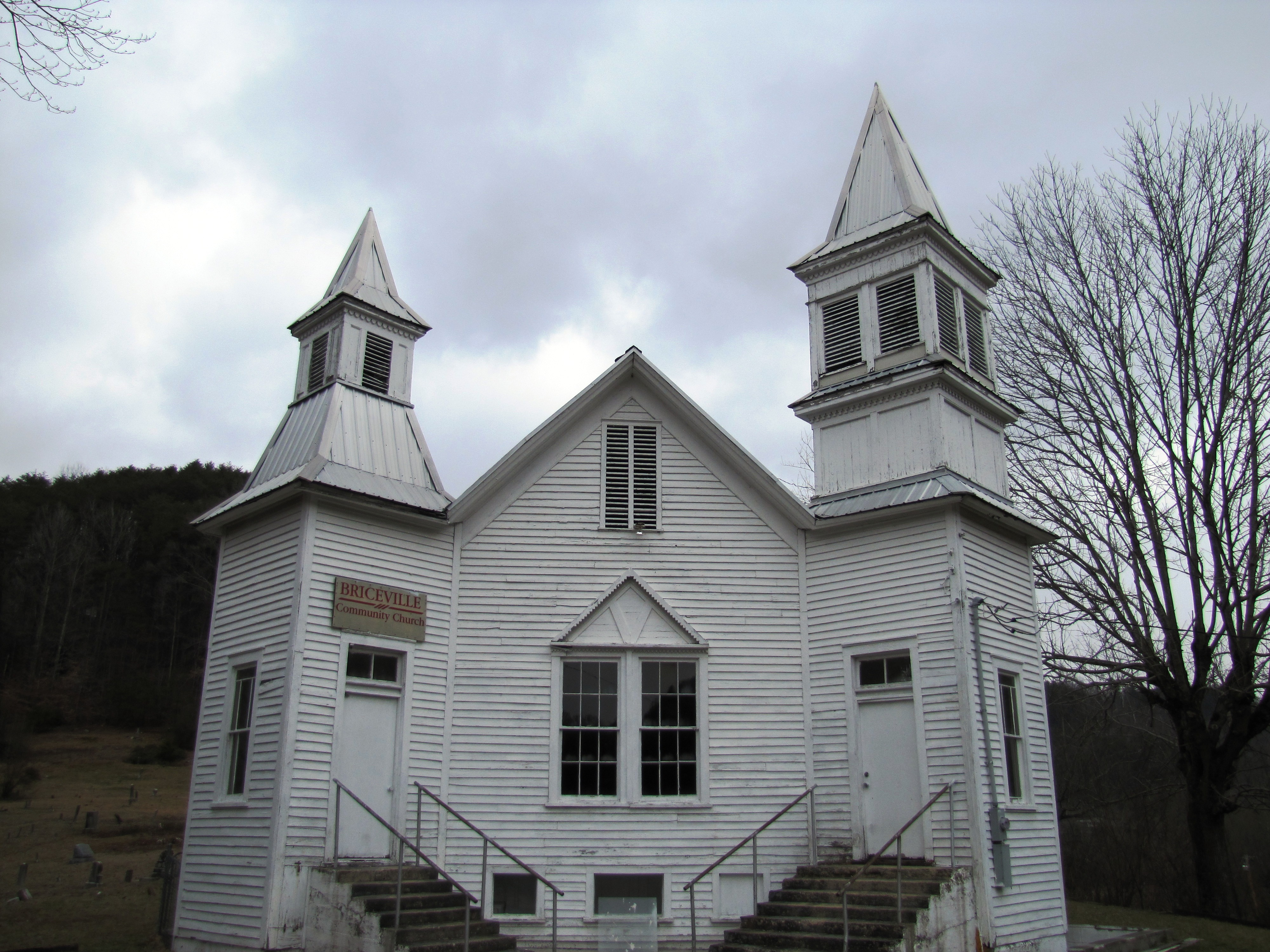 The front facade of the Briceville Community Church in Briceville, Tennessee, USA. The left (west) tower is shorter than the right (east) tower. Different-size towers are common elements of Gothic Revival architecture.